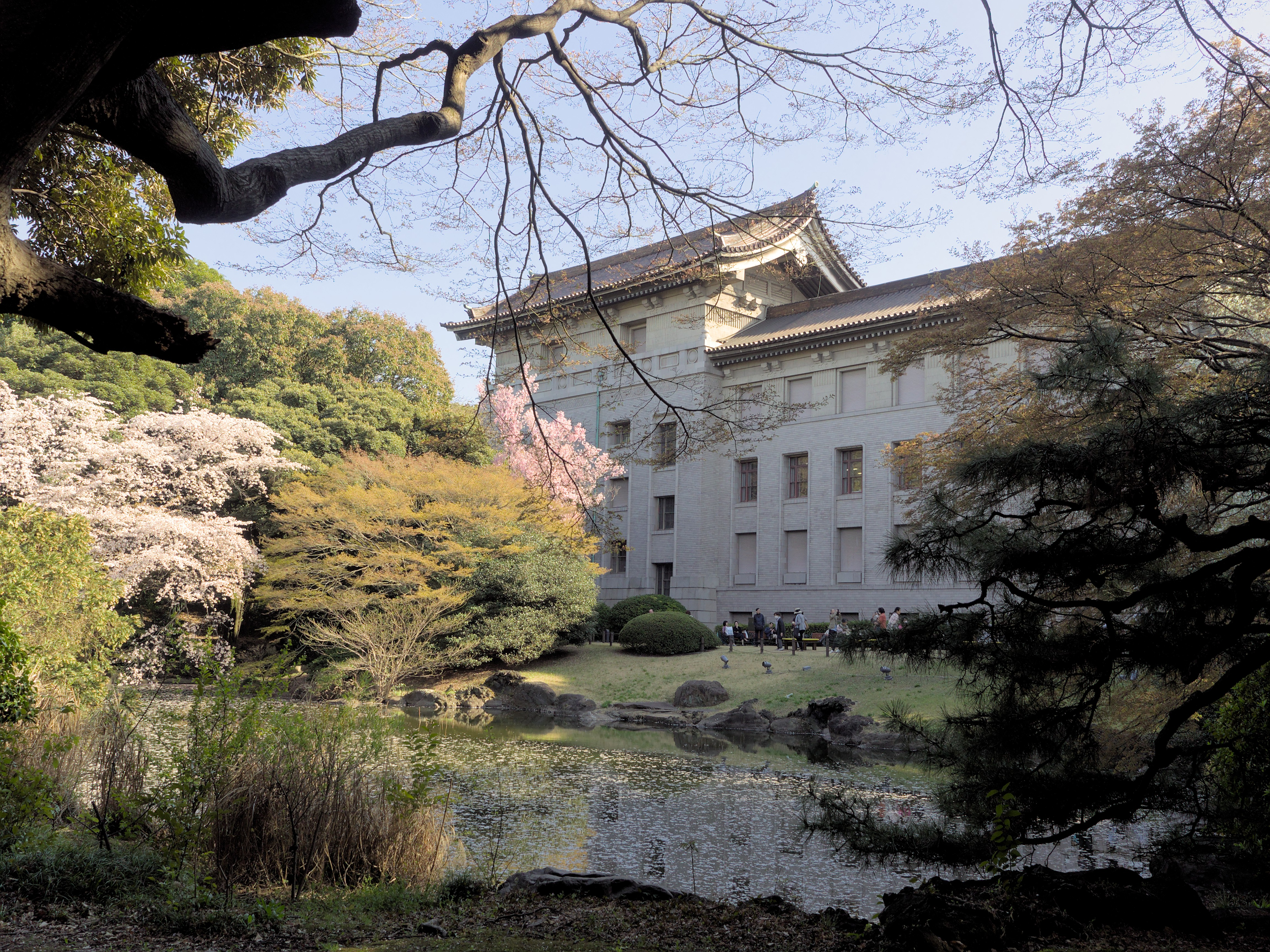 Backside of the Main Building (Honkan) and the garden of the Tokyo National Museum.